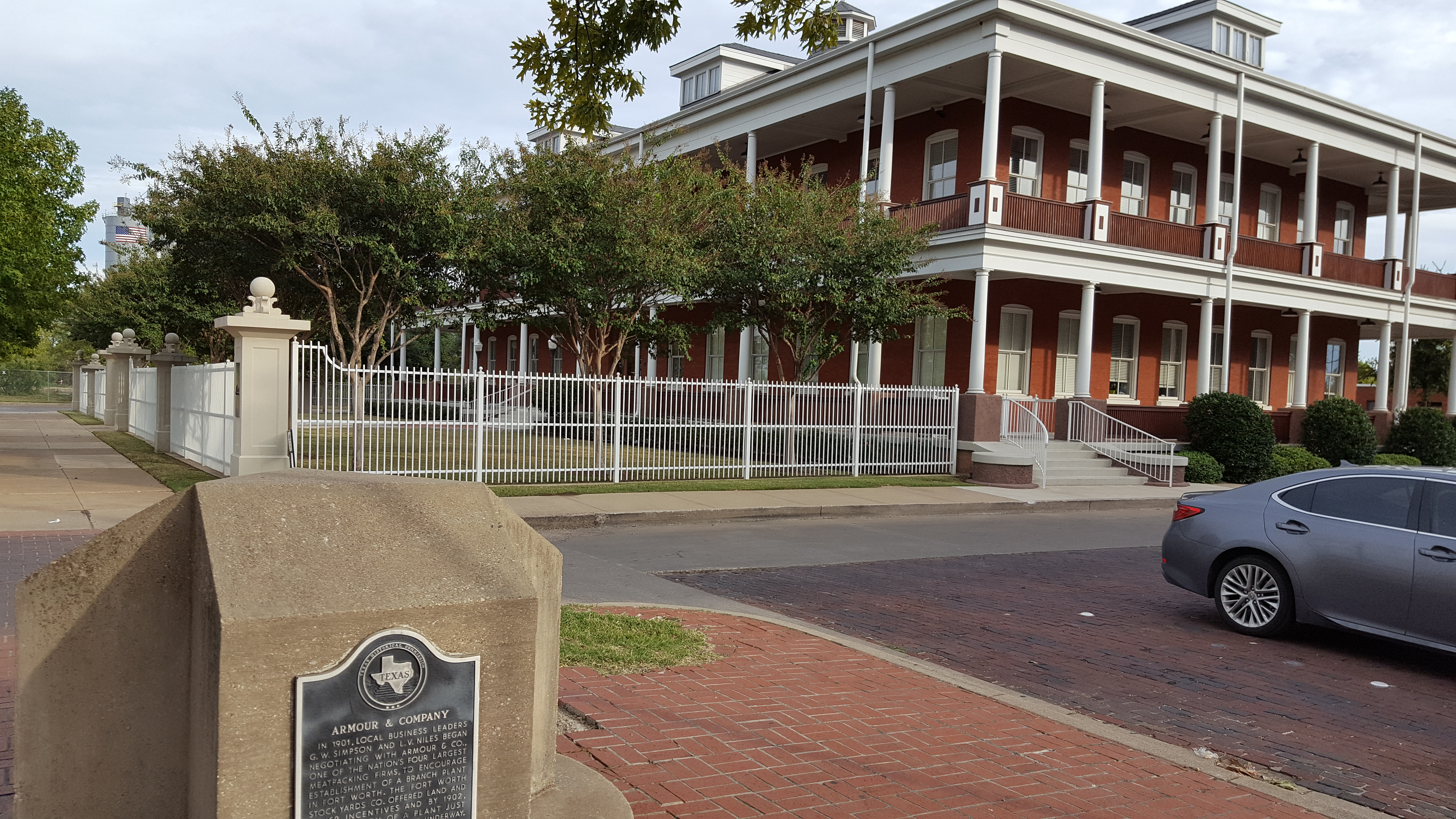 Armour and Company, marker and building